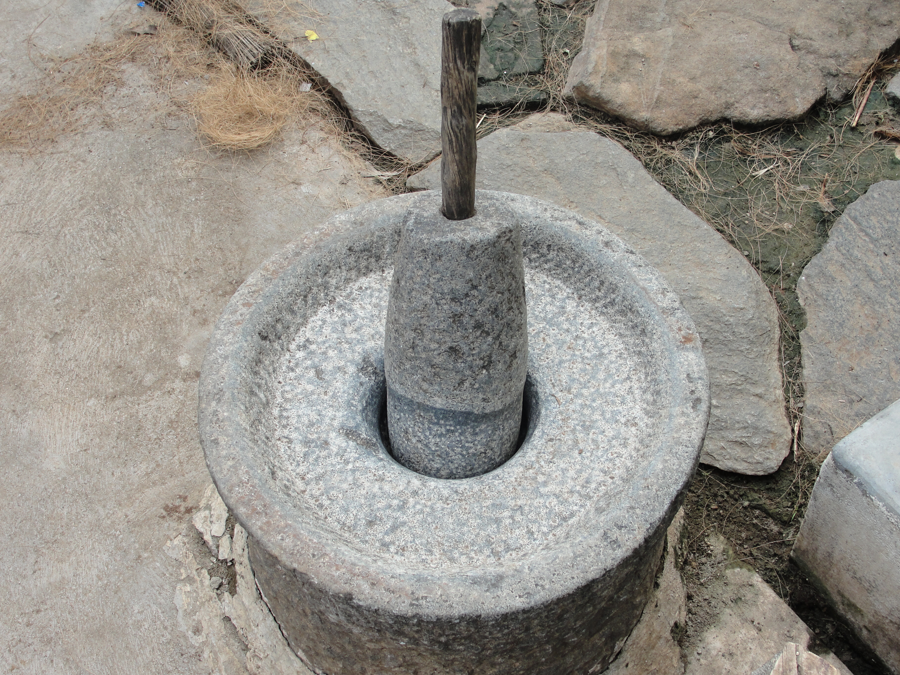 This picture depicting a traditional mortar used by Tamils.